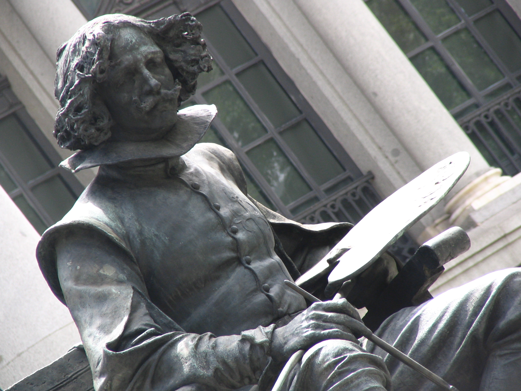 Statue of painter Diego Velázquez made by Aniceto Marinas in 1899. Outside the Prado Museum, Madrid, Spain.